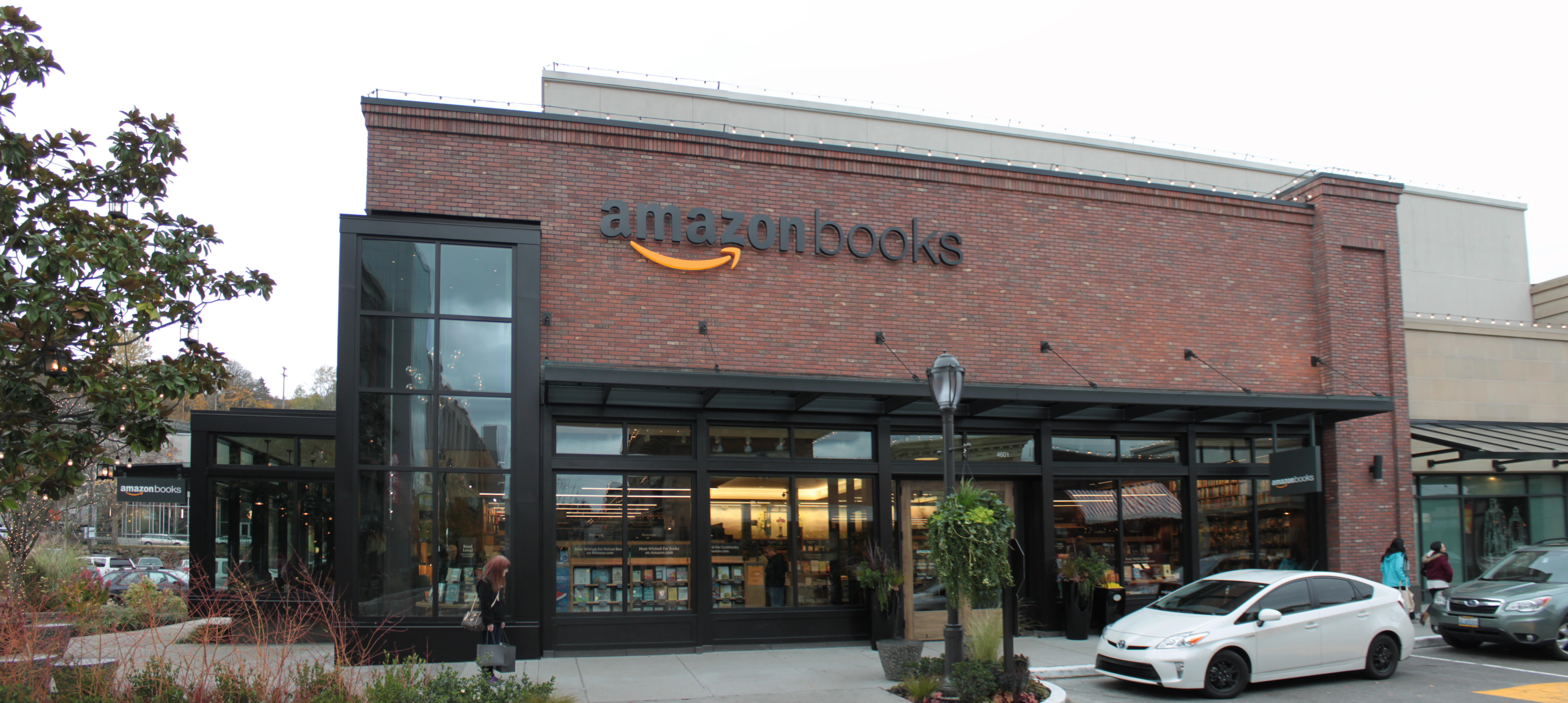 The Amazon Books retail store, the first physical outlet operated by online retailer , at the U Village shopping center in Seattle, Washington.